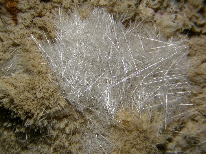 Dawsonite Locality: Terlano (Terlan), Adige Valley (Etsch Valley), Bolzano Province (South Tyrol), Trentino-Alto Adige, Italy Field of view 10 mm. Specimen and photo Leon Hupperichs.